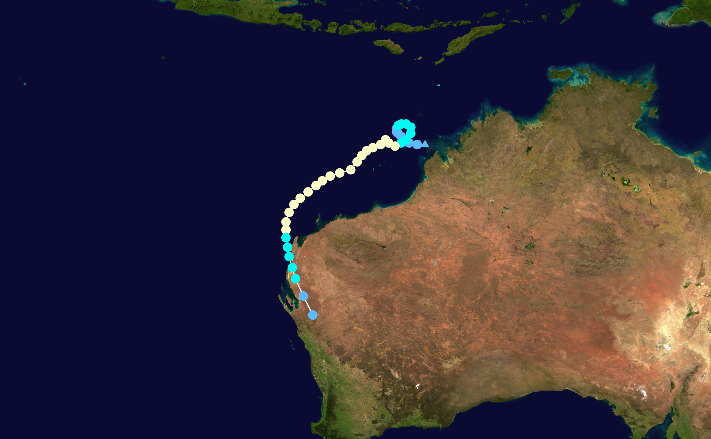 Track map of Severe Tropical Cyclone Nicholas of the 2007-08 Australian region cyclone season. The points show the location of the storm at 6-hour intervals. The colour represents the storm's maximum sustained wind speeds as classified in the Saffir–Simpson scale (see below), and the shape of the data points represent the nature of the storm, according to the legend below. Saffir–Simpson scale Tropical depression≤38 mph≤62 km/h Category 3111–129 mph178–208 km/h Tropical storm39–73 mph63–118 km/h Category 4130–156 mph209–251 km/h Category 174–95 mph119–153 km/h Category 5≥157 mph≥252 km/h Category 296–110 mph154–177 km/h Unknown Storm type Tropical cyclone Subtropical cyclone Extratropical cyclone / Remnant low / Tropical disturbance / Monsoon depression